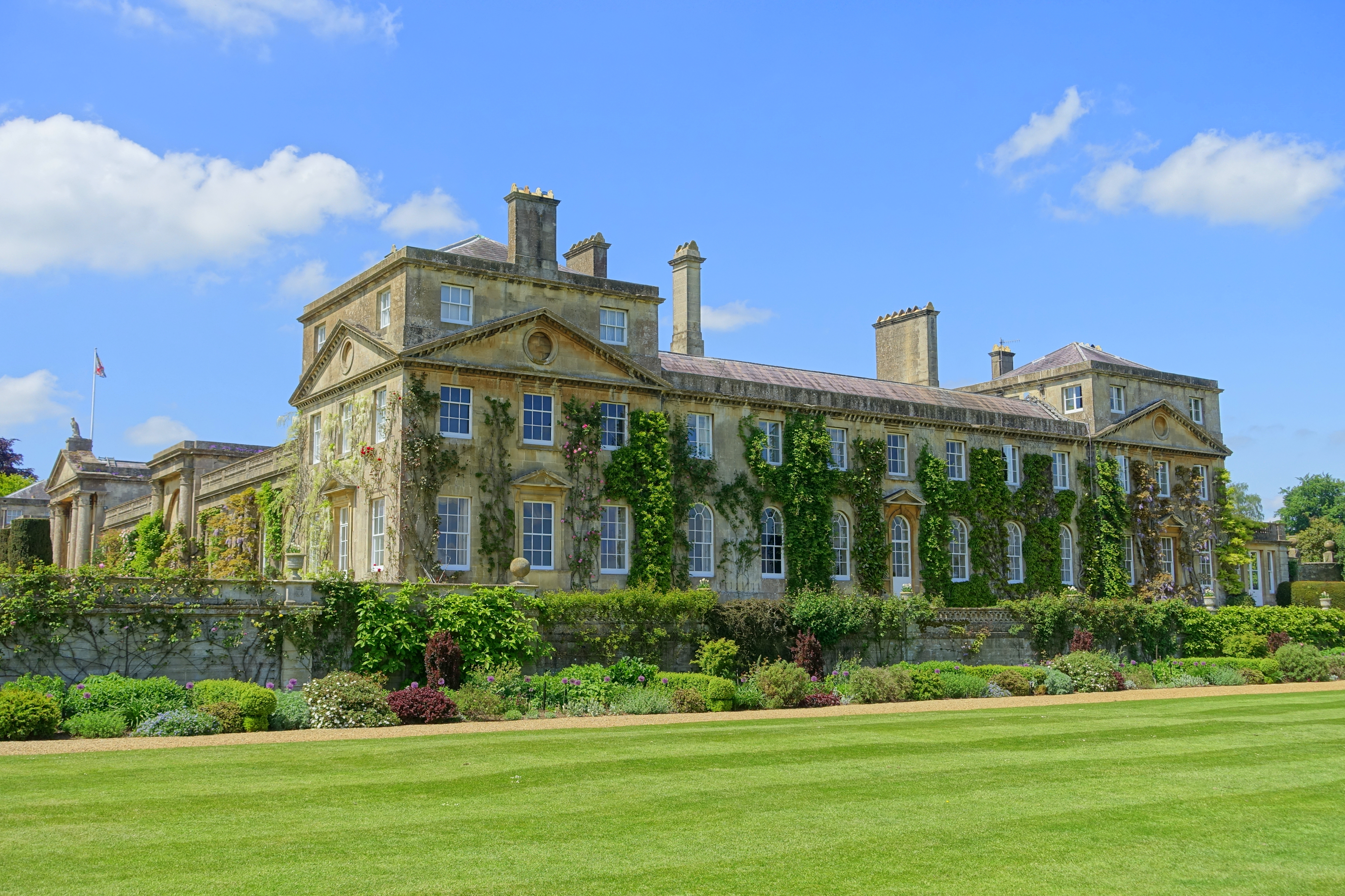 Bowood House - Wiltshire, England.